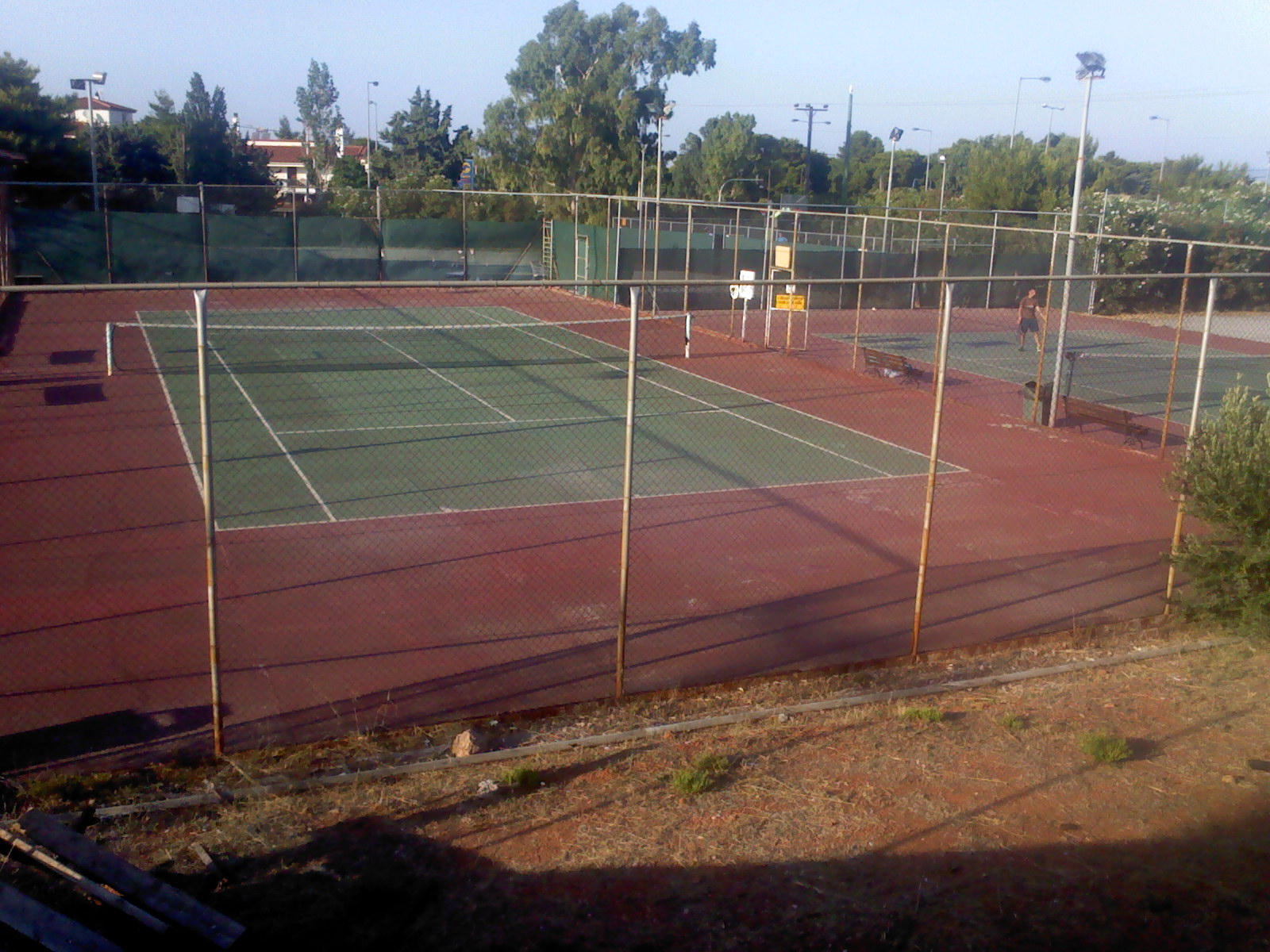 Athletic club Proodos Neos Boutzas